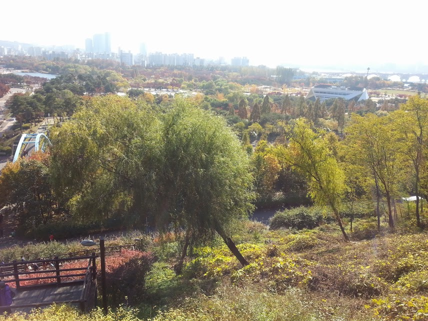 Wouldcup park in Autumn